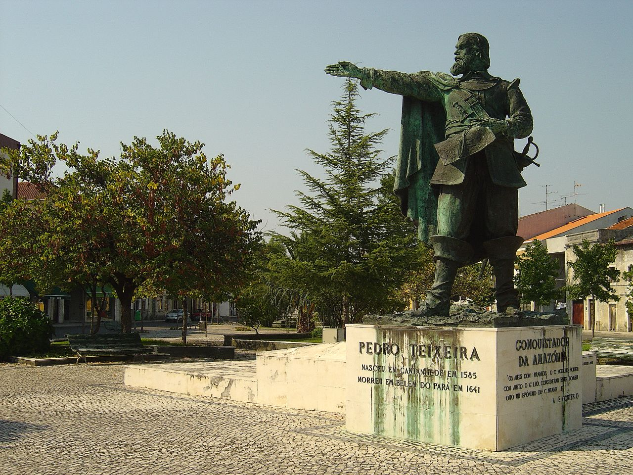 Statue of Pedro Teixeira in Cantanhede, Portugal